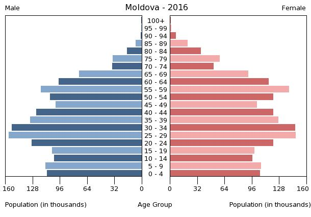 The population pyramid of Moldova illustrates the age and sex structure of population and may provide insights about political and social stability, as well as economic development. The population is distributed along the horizontal axis, with males shown on the left and females on the right. The male and female populations are broken down into 5-year age groups represented as horizontal bars along the vertical axis, with the youngest age groups at the bottom and the oldest at the top. The shape of the population pyramid gradually evolves over time based on fertility, mortality, and international migration trends.